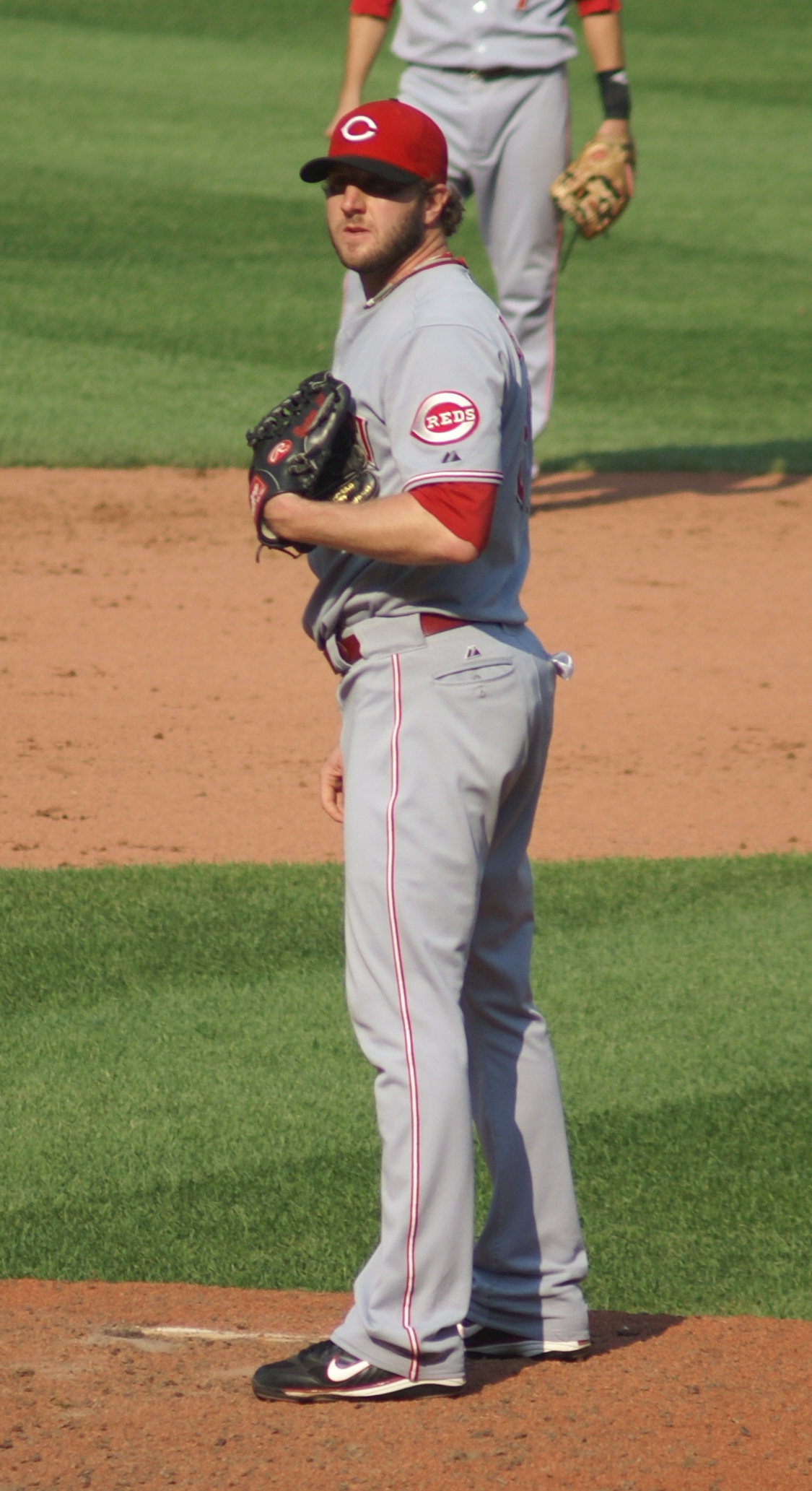 Jared Burton